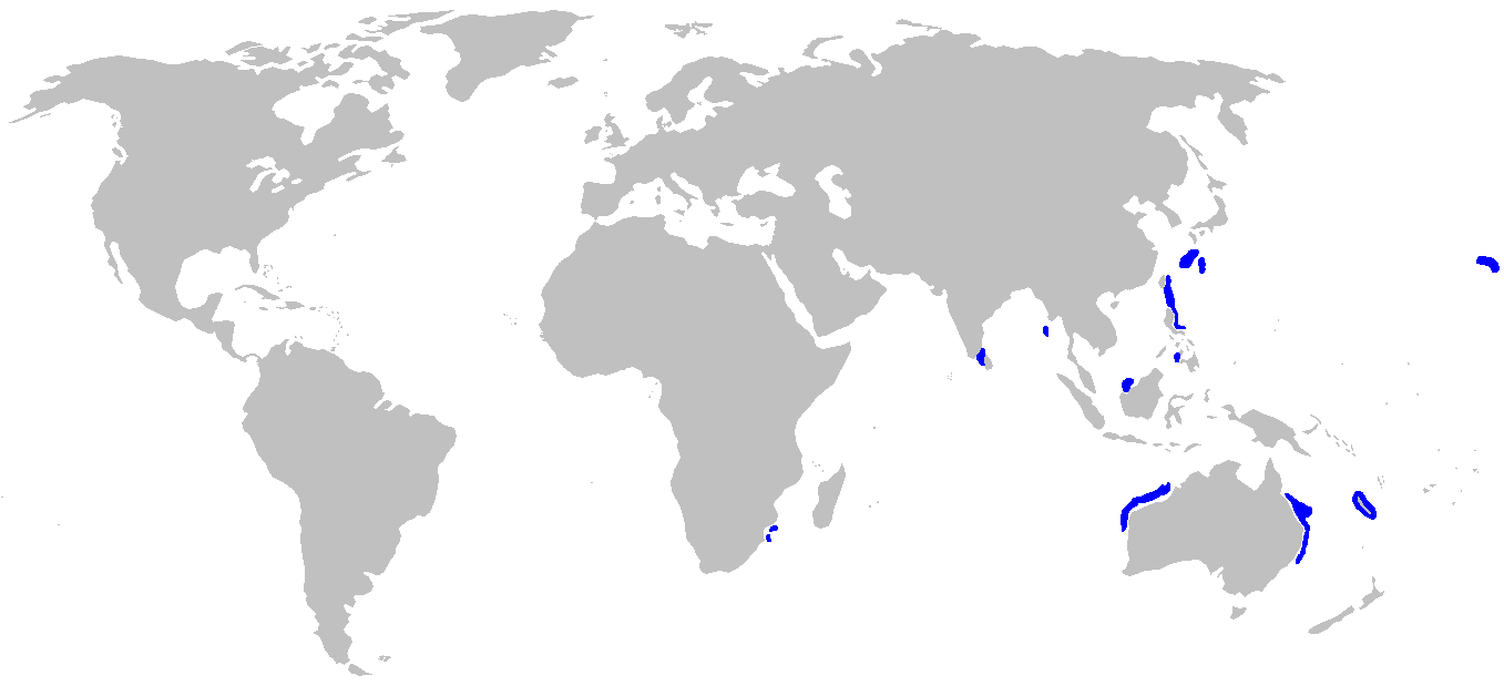 Range of the deepwater stingray (Plesiobatis daviesi). Based on [1] and Last & Stevens (2009)